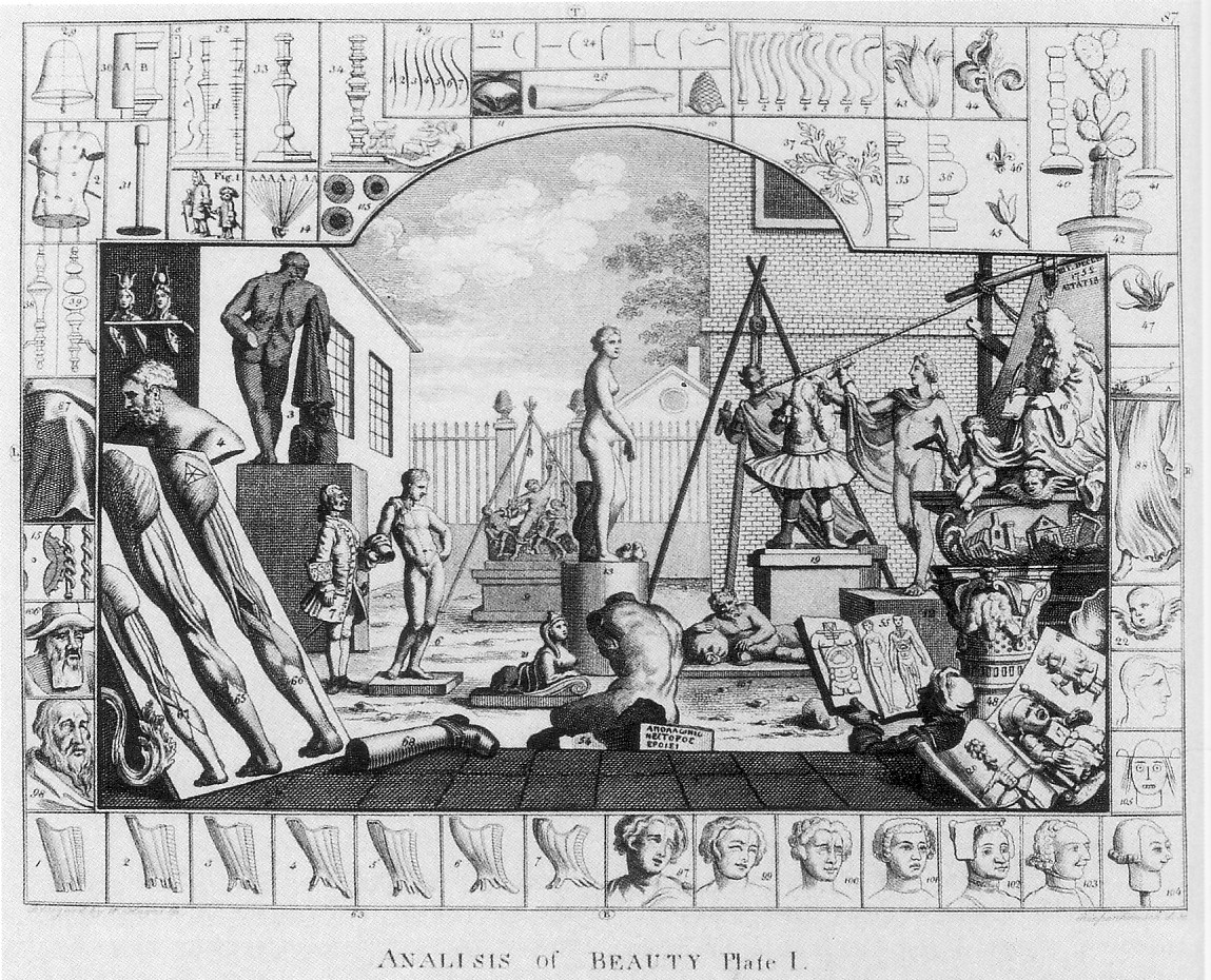 Copper-engraving in reduced shape of William Hogarth's "Analisis of Beauty", Plate 1.